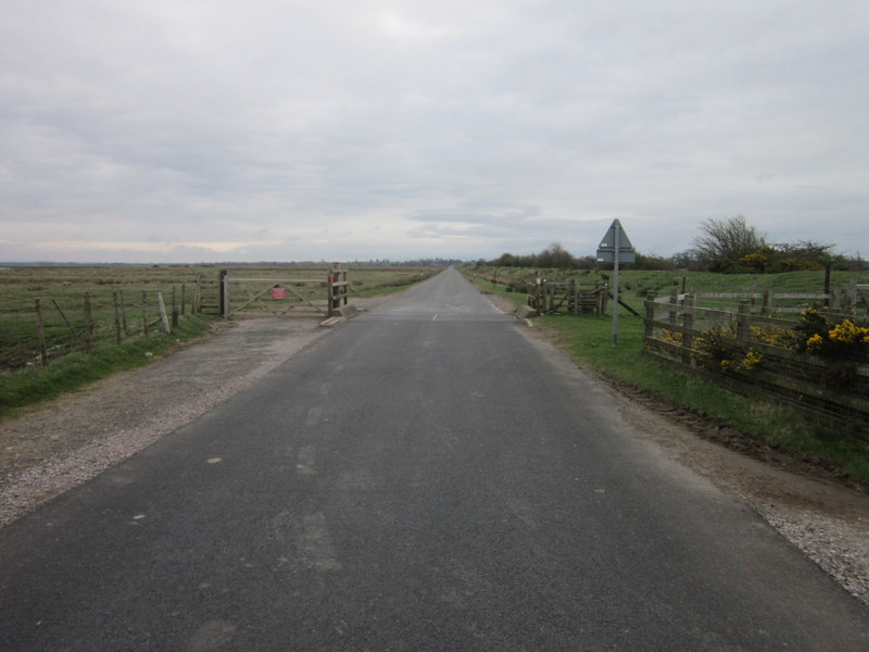 Walking east towards Burgh by Sands